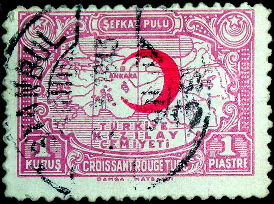 Turkish postal tax stamp in favour of the Red Crescent, representing a map of the country, from a 1928 design, this one issued 1941 and cancelled 1943 in Istanbul.